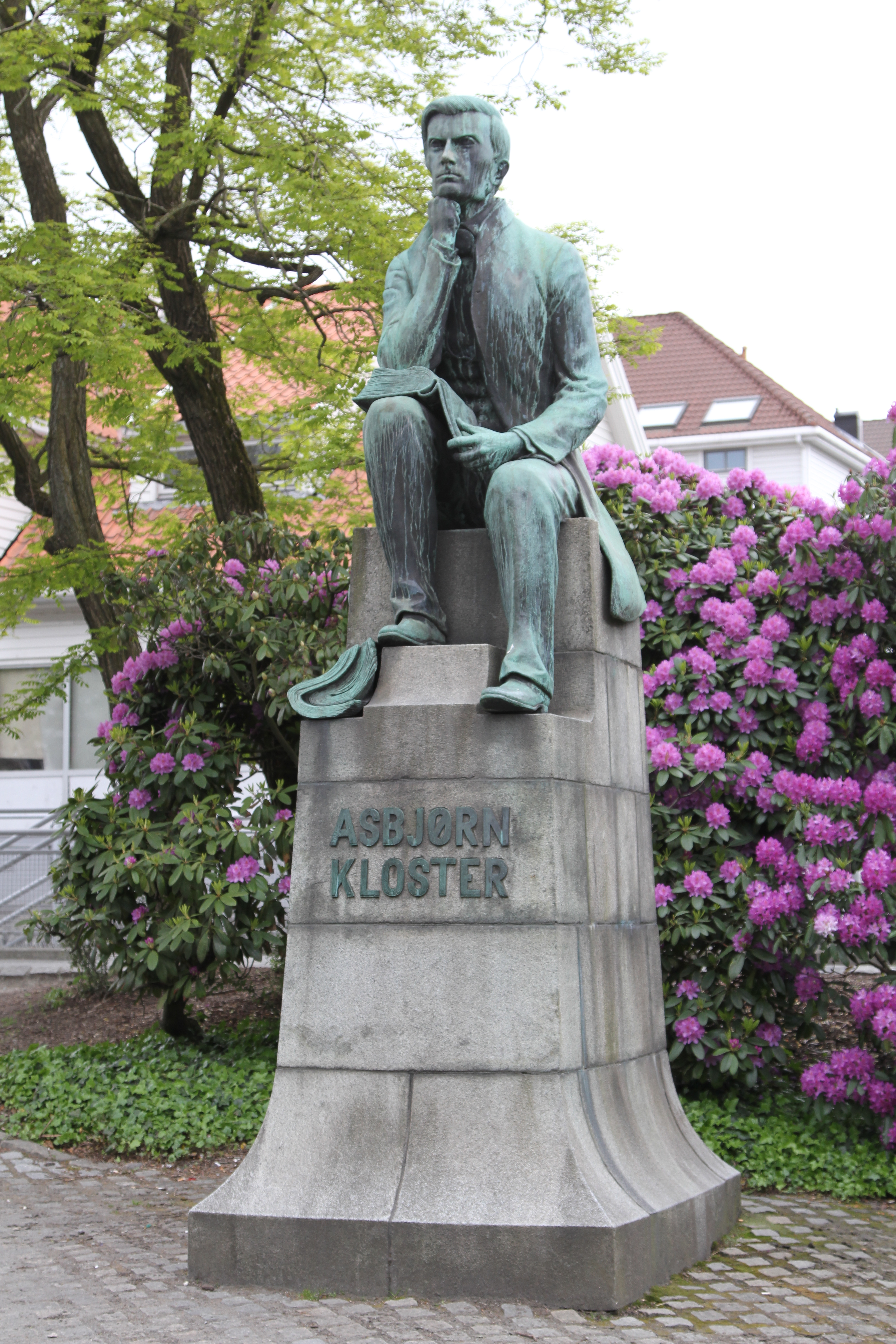 Statue of Asbjørn Kloster, Stavanger, Norway. Made by Valentin Kielland in 1912.